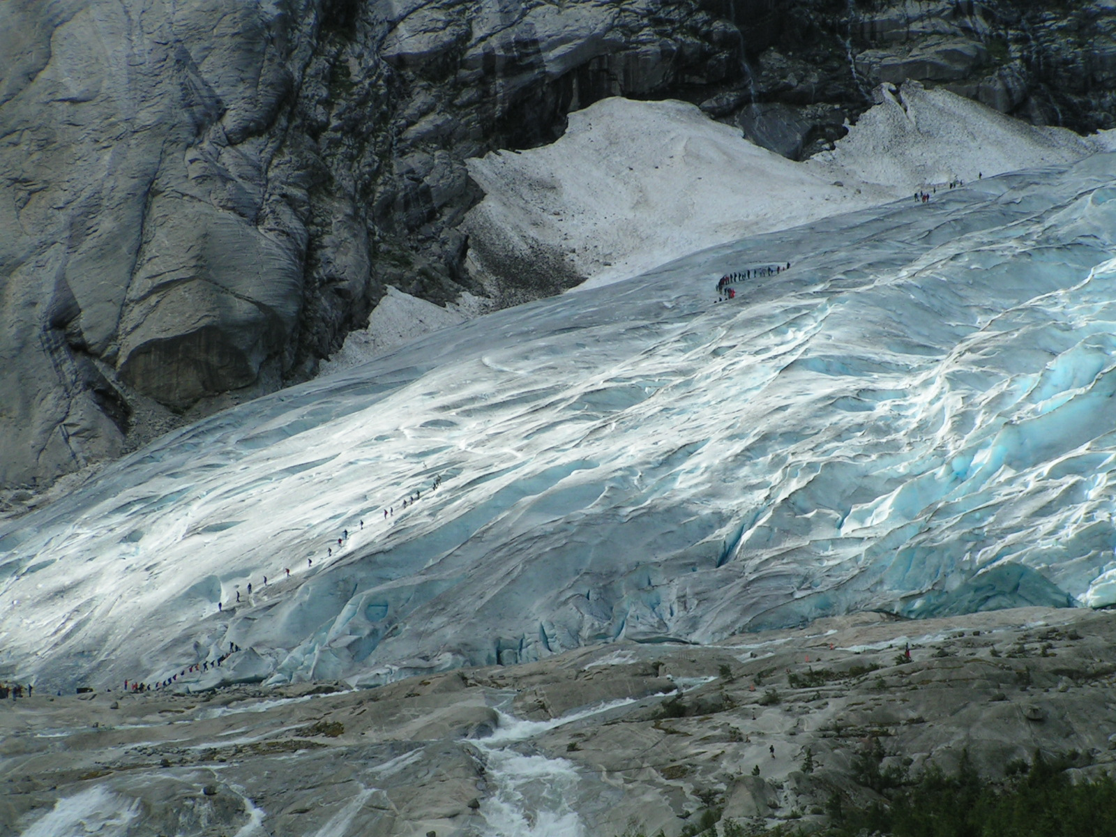 Several groups of people are glacier hiking on the glacier Nigardsbreen in Luster municipality in Sogn og Fjordane county in Norway. This glacier is one of the more easily accessible and each year many people go glacier hiking here.